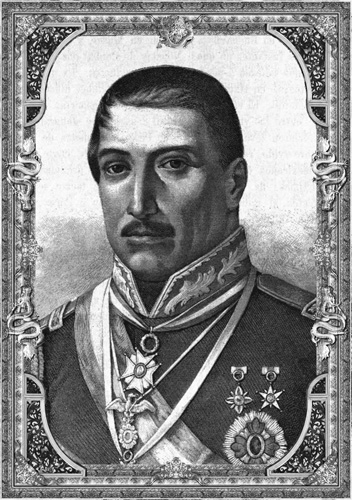 Self-portrait of Valentín Canalizo Bocadillo, Lithograph (1870-1907).